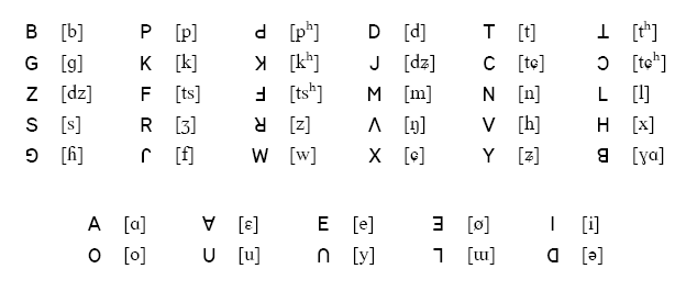 Letters of the Fraser alphabet